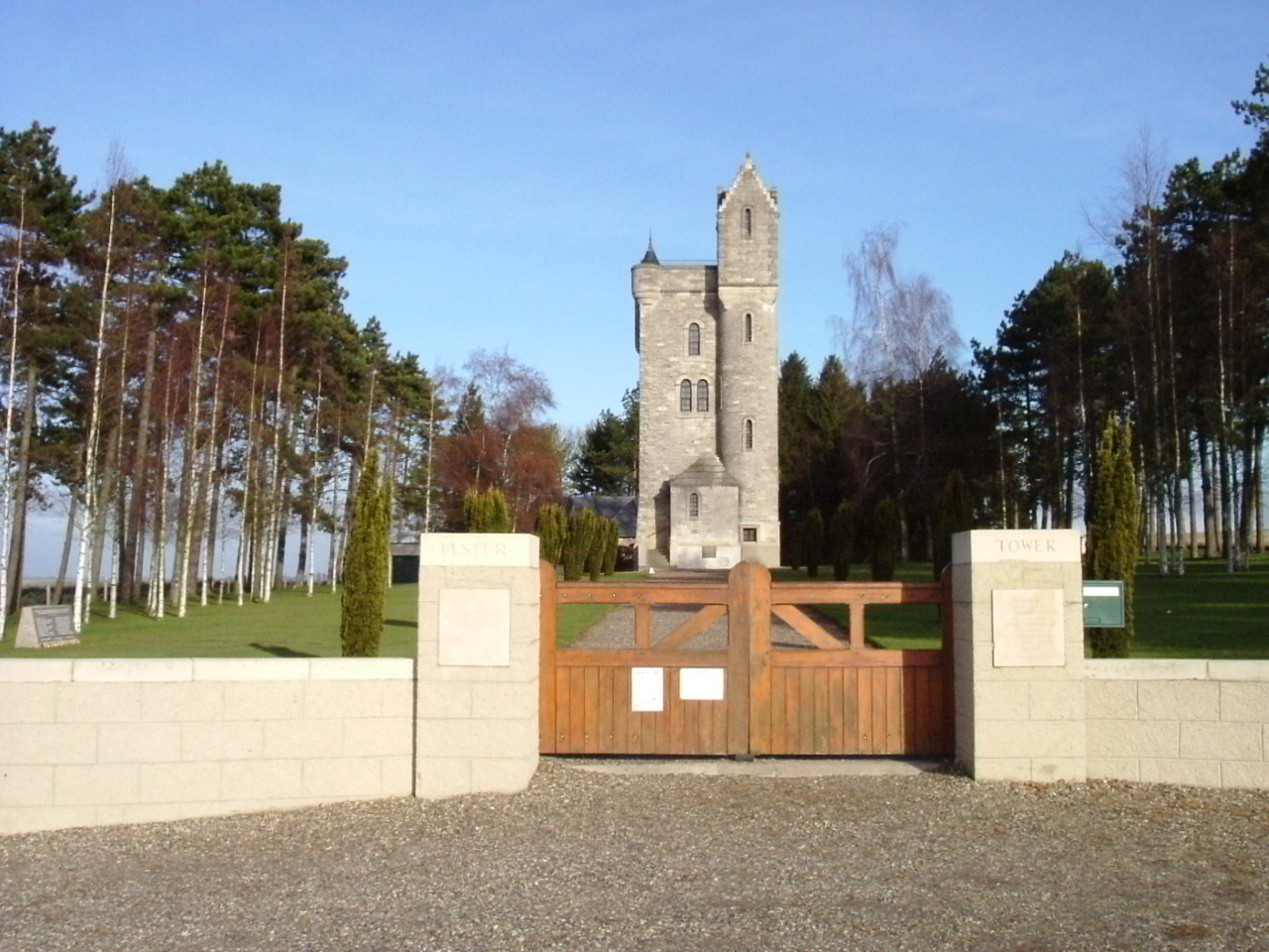 The Ulster Tower near the Thiepval Memorial for the missing, december 2005, Harm Frielink